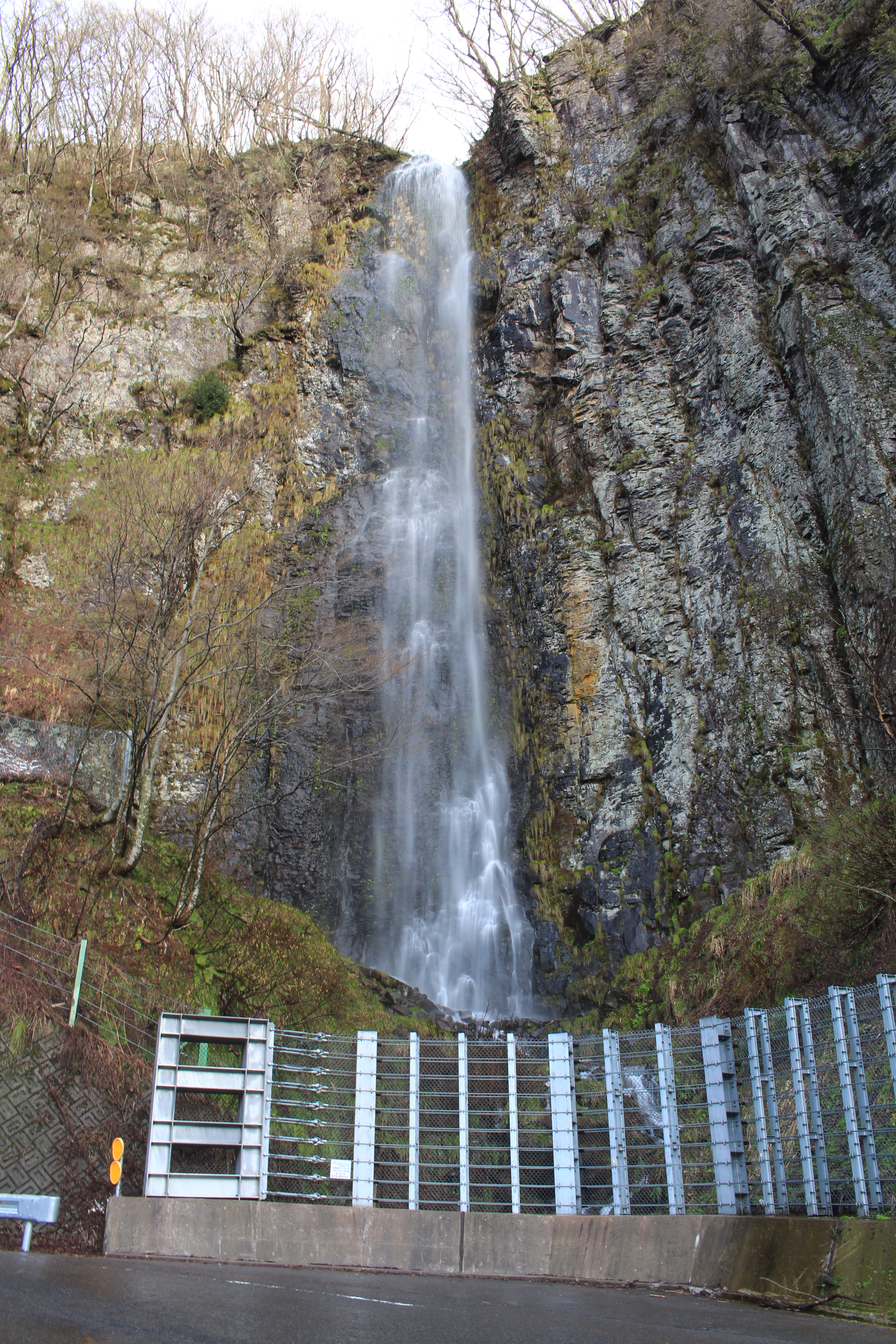 Kiri Falls (Kiri-ga-taki) of Maetani River in Gujo, Gifu prefecture, Japan.